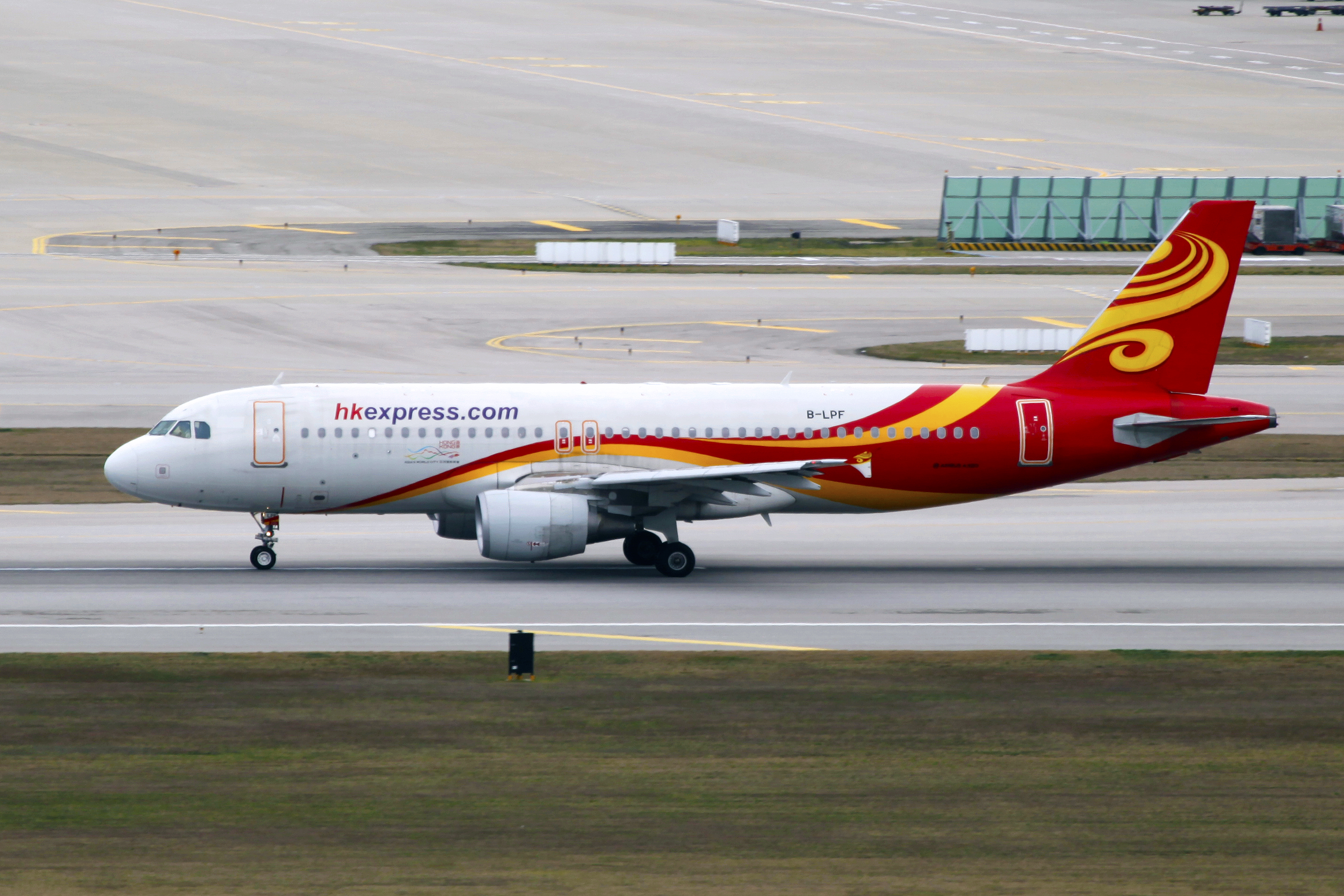 Hong Kong Express Airbus A320-214 Seoul Incheon International Airport [ICN]